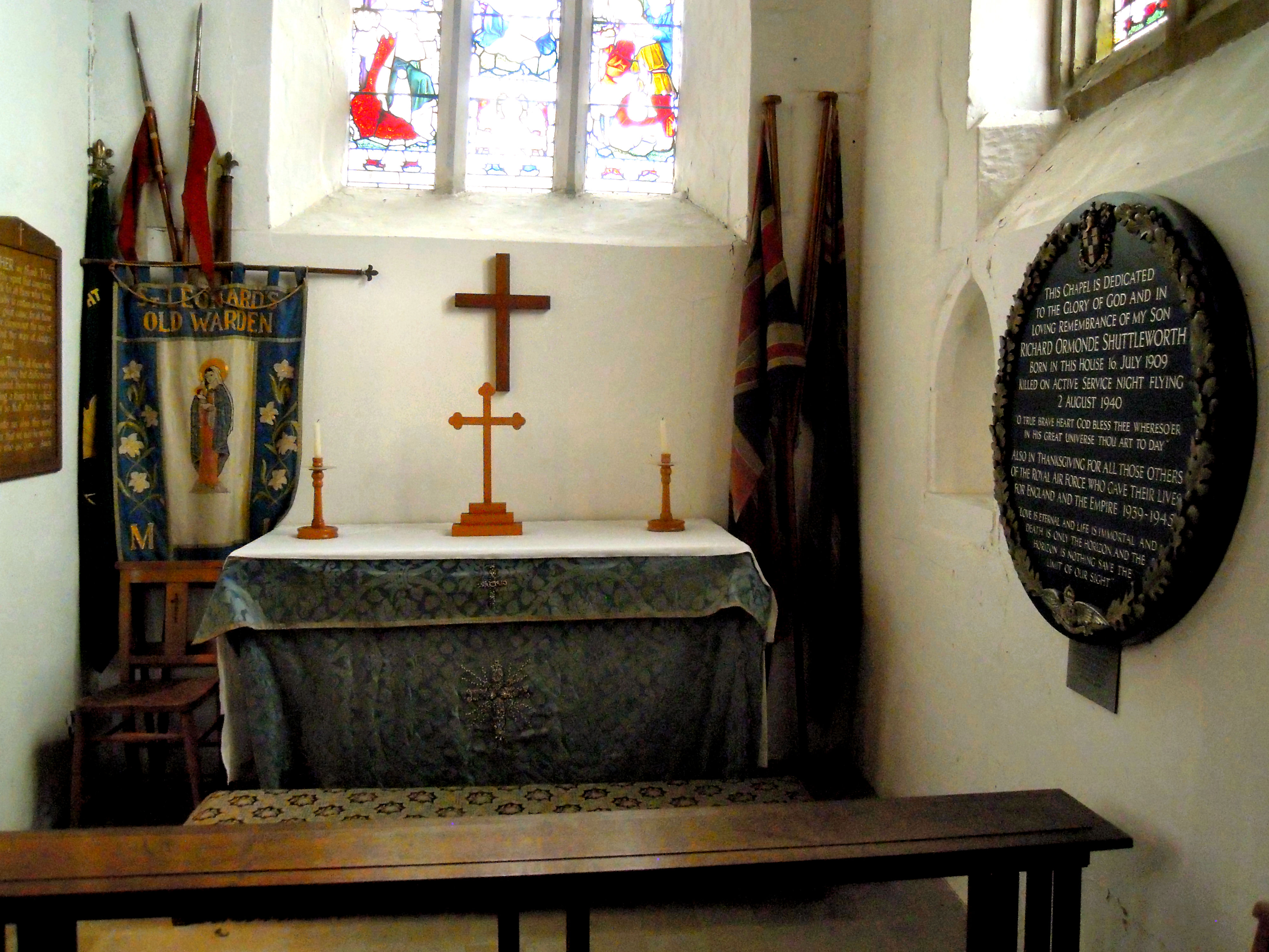 The Richard Ormonde Shuttleworth Memorial Chapel in the Church of St Leonard in Old Warden in Bedfordshire